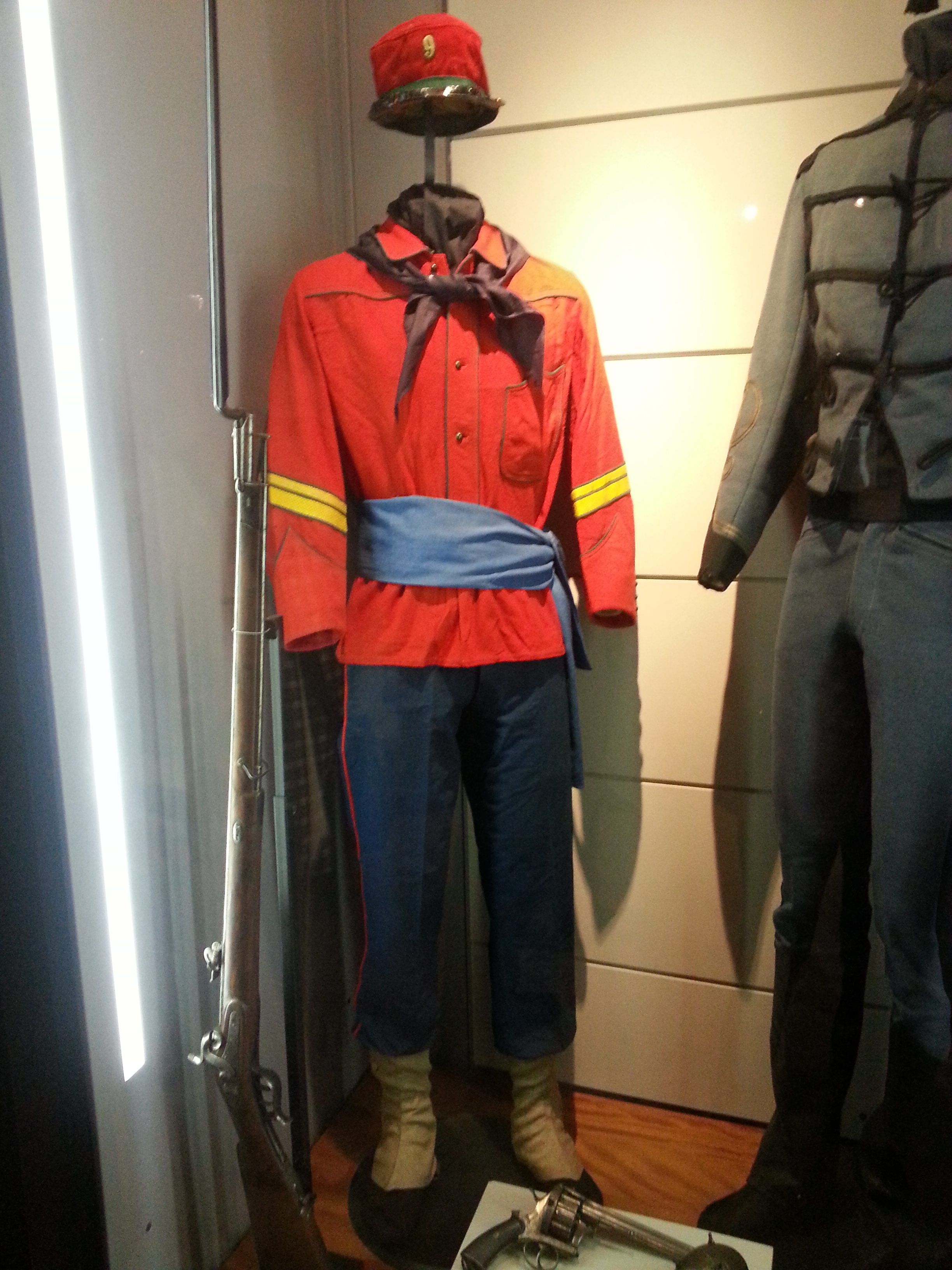 Garibaldi Army Uniform, 1866